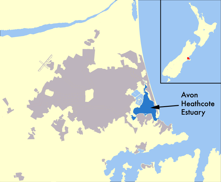 Map showing the location of the Avon Heathcote Estuary, Christchurch, New Zealand